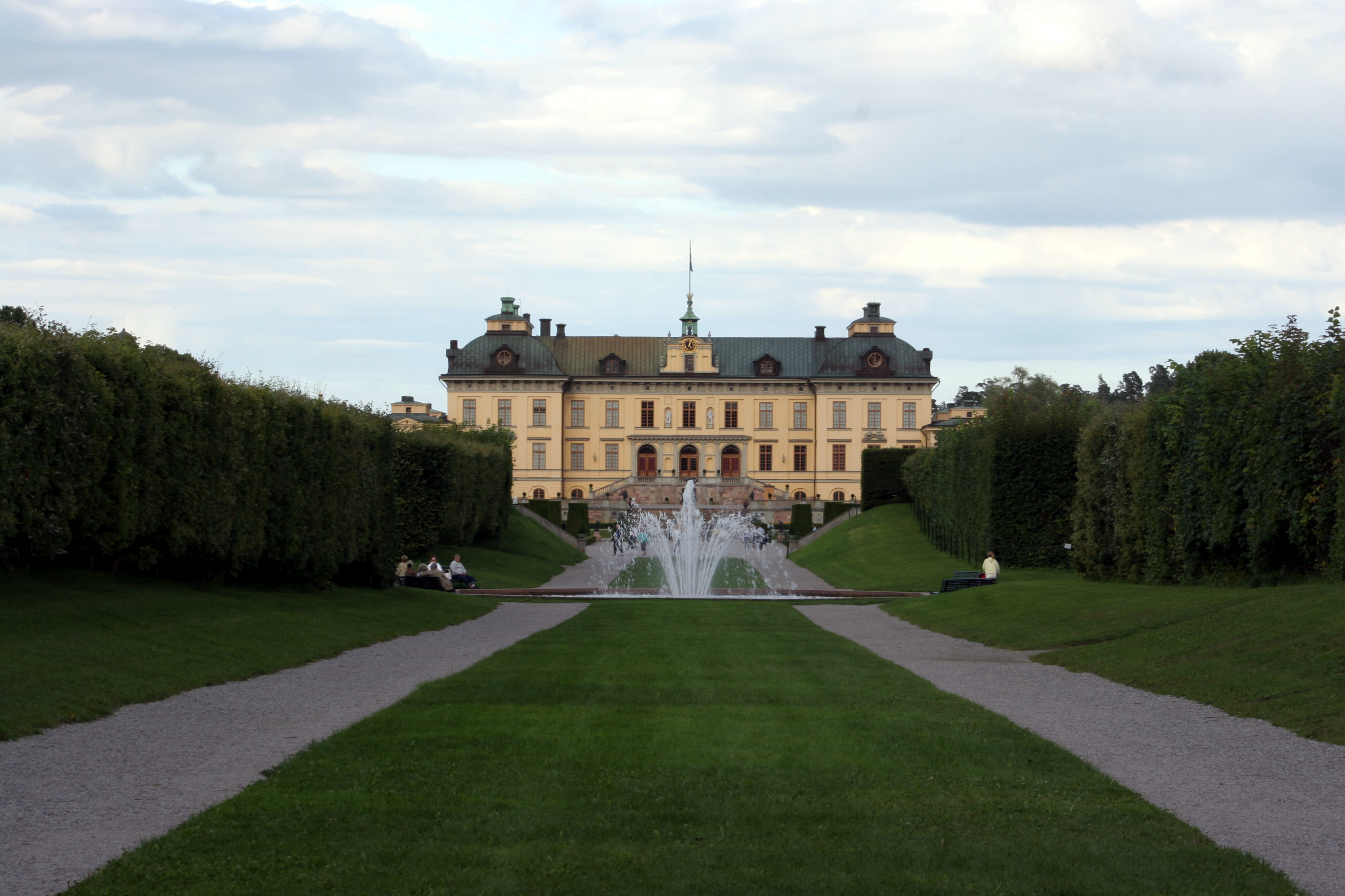 Drottningholms slott, Stockholm, Sweden. The swedish King's recidence.